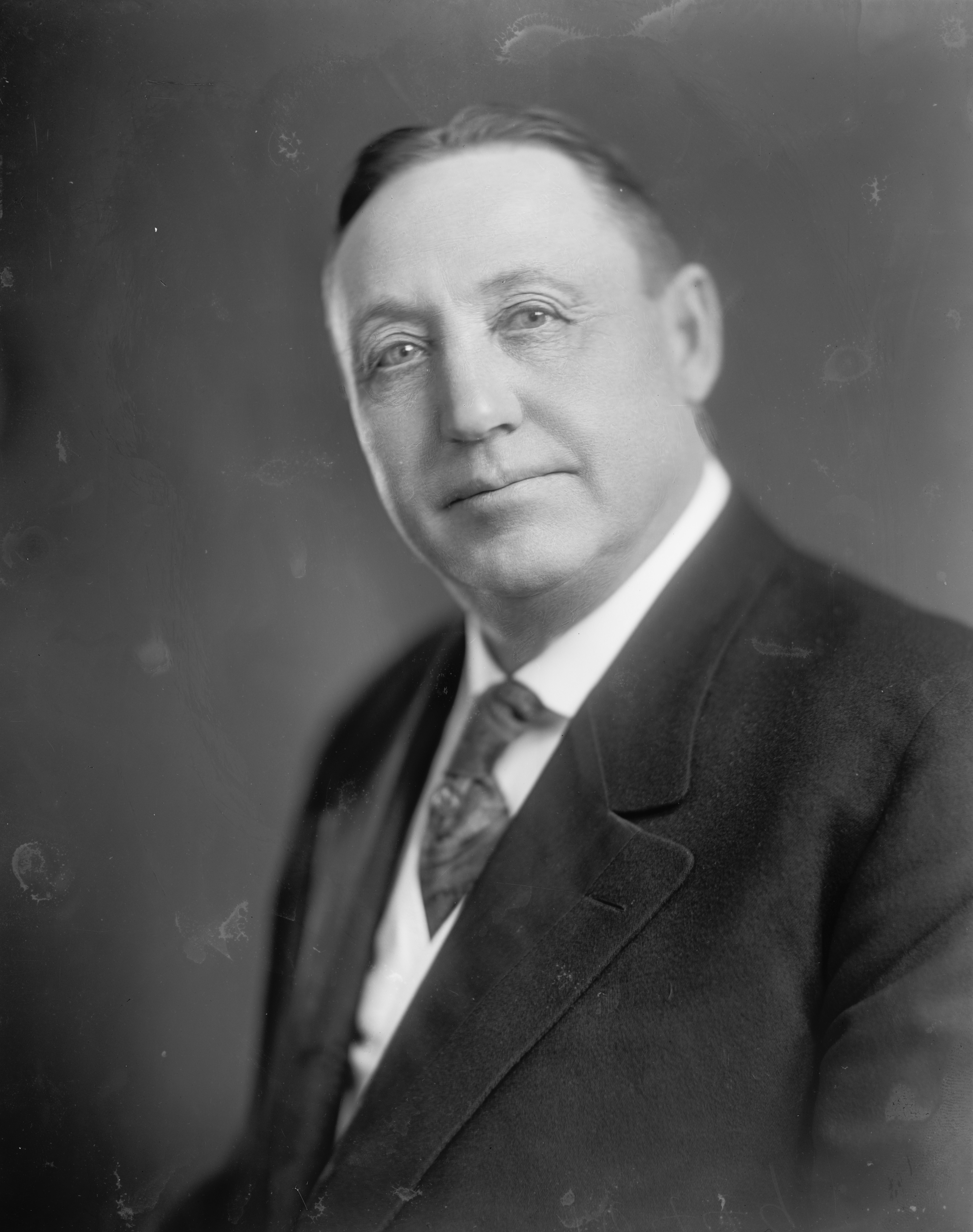 Title: FERNALD, BERT M. SENATOR Abstract/medium: 1 negative : glass ; 8 x 10 in. or smaller